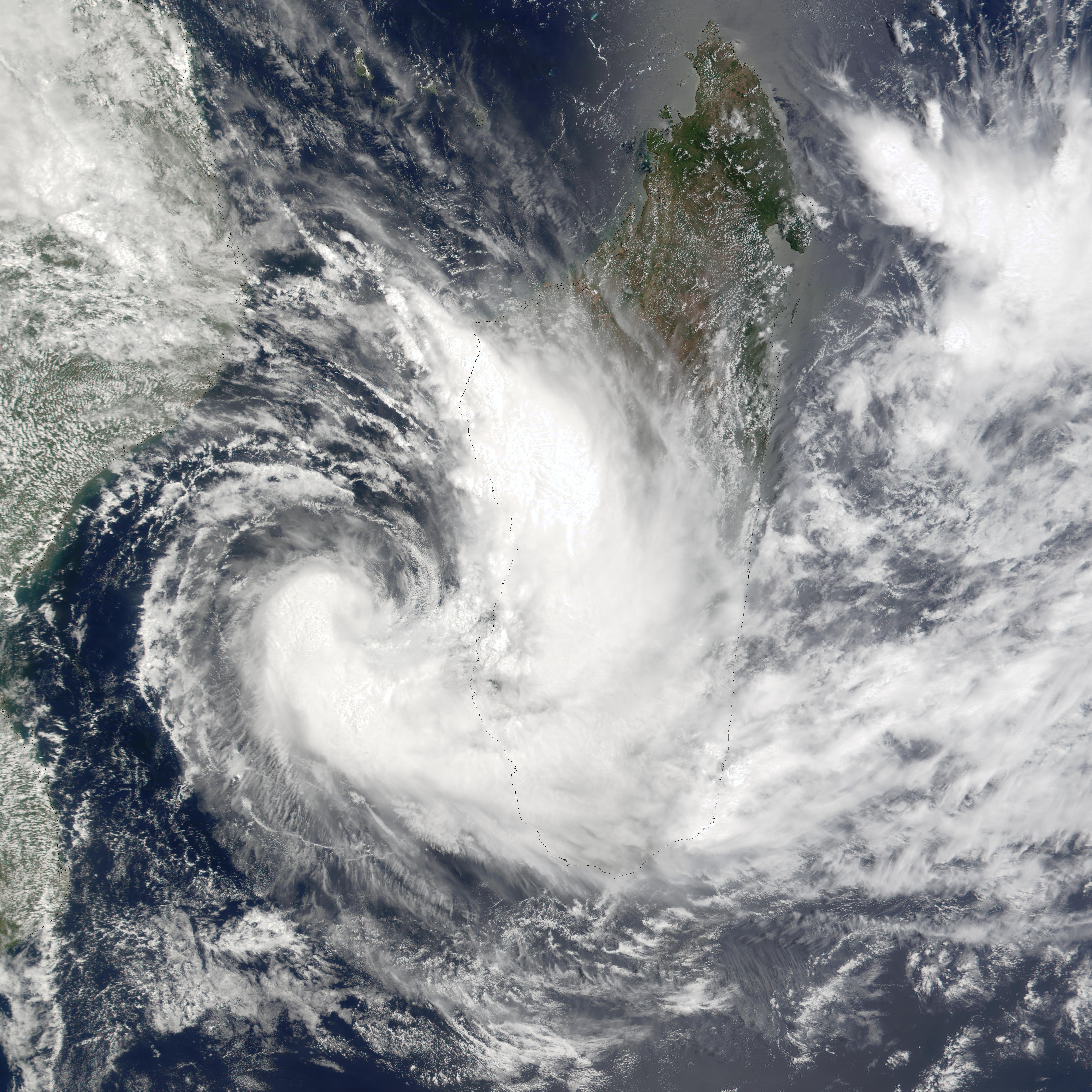 As New Year's Day festivities continued around the world, Madagascar was under extremely heavy rainfall, a result of lying in Cyclone Cyprien's menacing path. In this true-color image captured by MODIS on January 1, 2002, Cyprien had begun to move off the southwestern coast of Madagascar and was progressing towards the eastern coast of Africa. News reports indicate that rainfall totals in much of southern Madagascar surpassed 4 inches, with the small coastal city of Tulear receiving as much as 7 total inches.